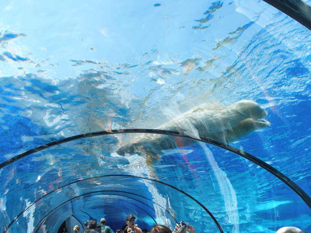 Tunnel under the polar bear tank at the Detroit Zoo.